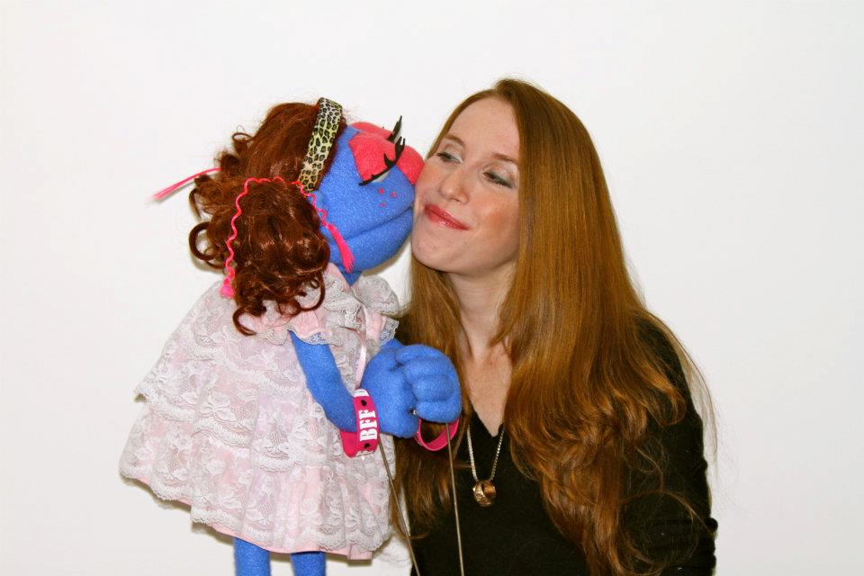 Puppeteer Leslie Madeline Fleming performs a girl character called Bleeckie, receiving a "kiss" from the character. Her pose with the puppet is reminiscent of ventriloquist acts or the unconcealed performer style popularized by Avenue Q, however Fleming generally is not seen in recordings of her scripted video performances, much akin to The Muppets and most other modern puppetry troupes. Bleeckie videos are generally appropriate for all ages. Fleming's previous experience includes research for Sesame Workshop.